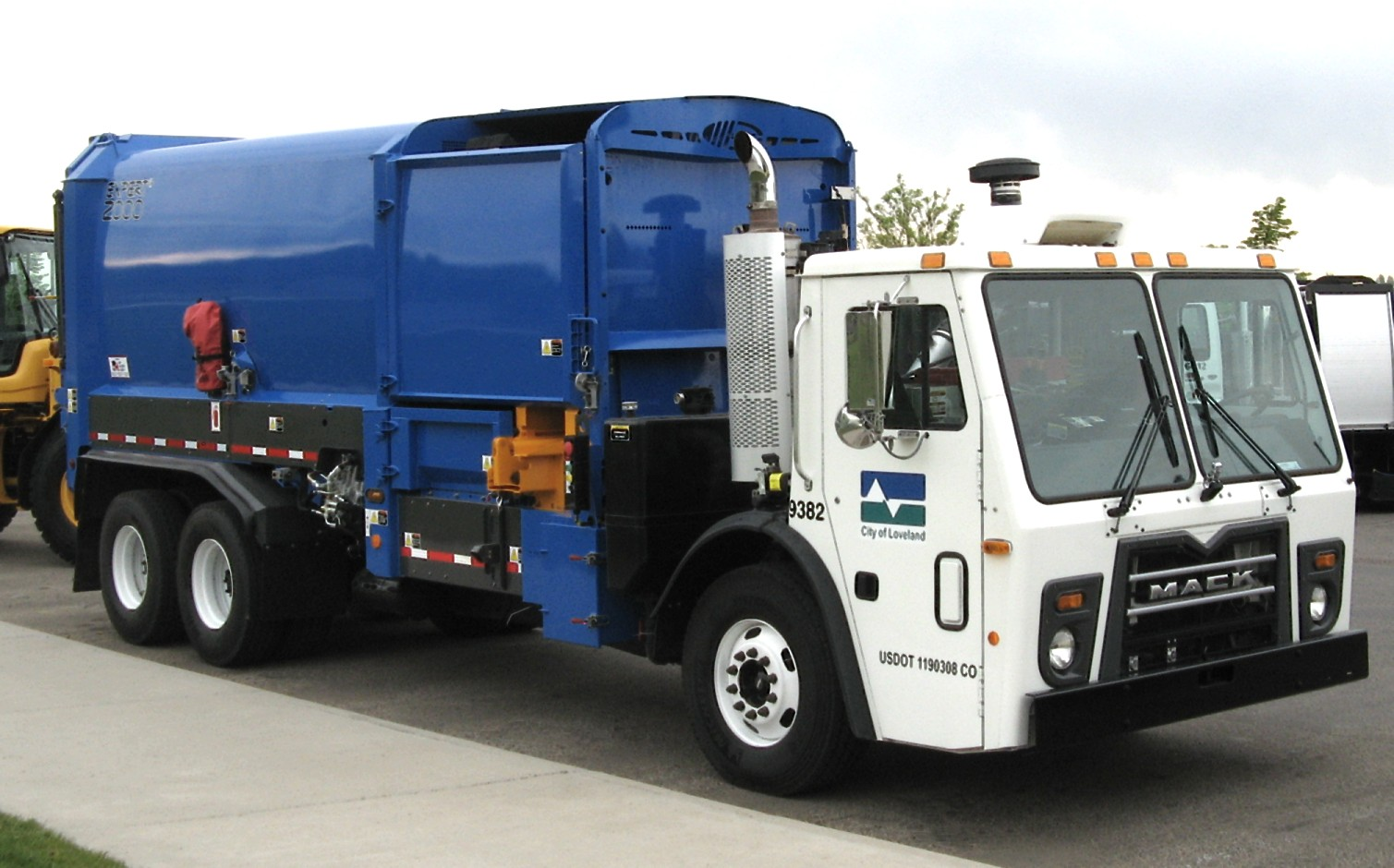 Mack trash hauler truck, Loveland, Colorado / 2008